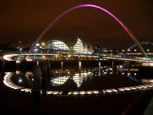 Gateshead Millennium Bridge Stunning view of the bridge from the Newcastle side of the Tyne. The Sage opera house is in the background too.